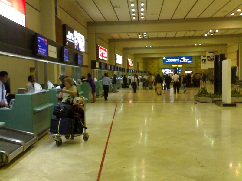 Soekarno Hatta International Airport Check in desks at Terminal 2